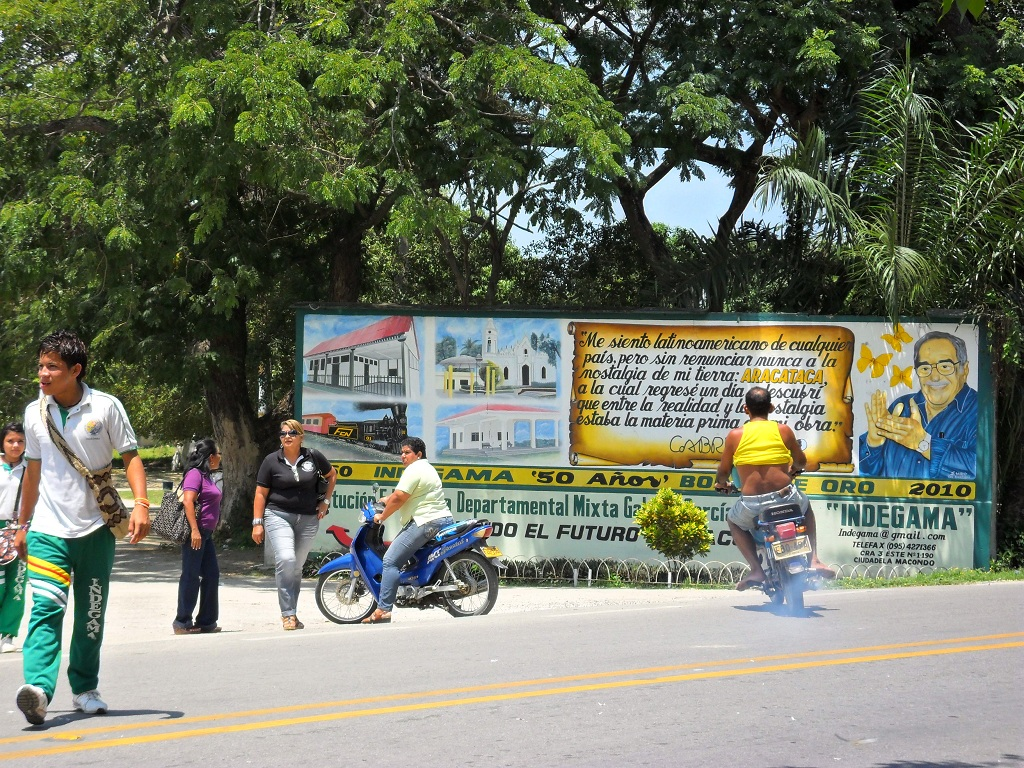 Garcia Marquez Wall in Aracataca